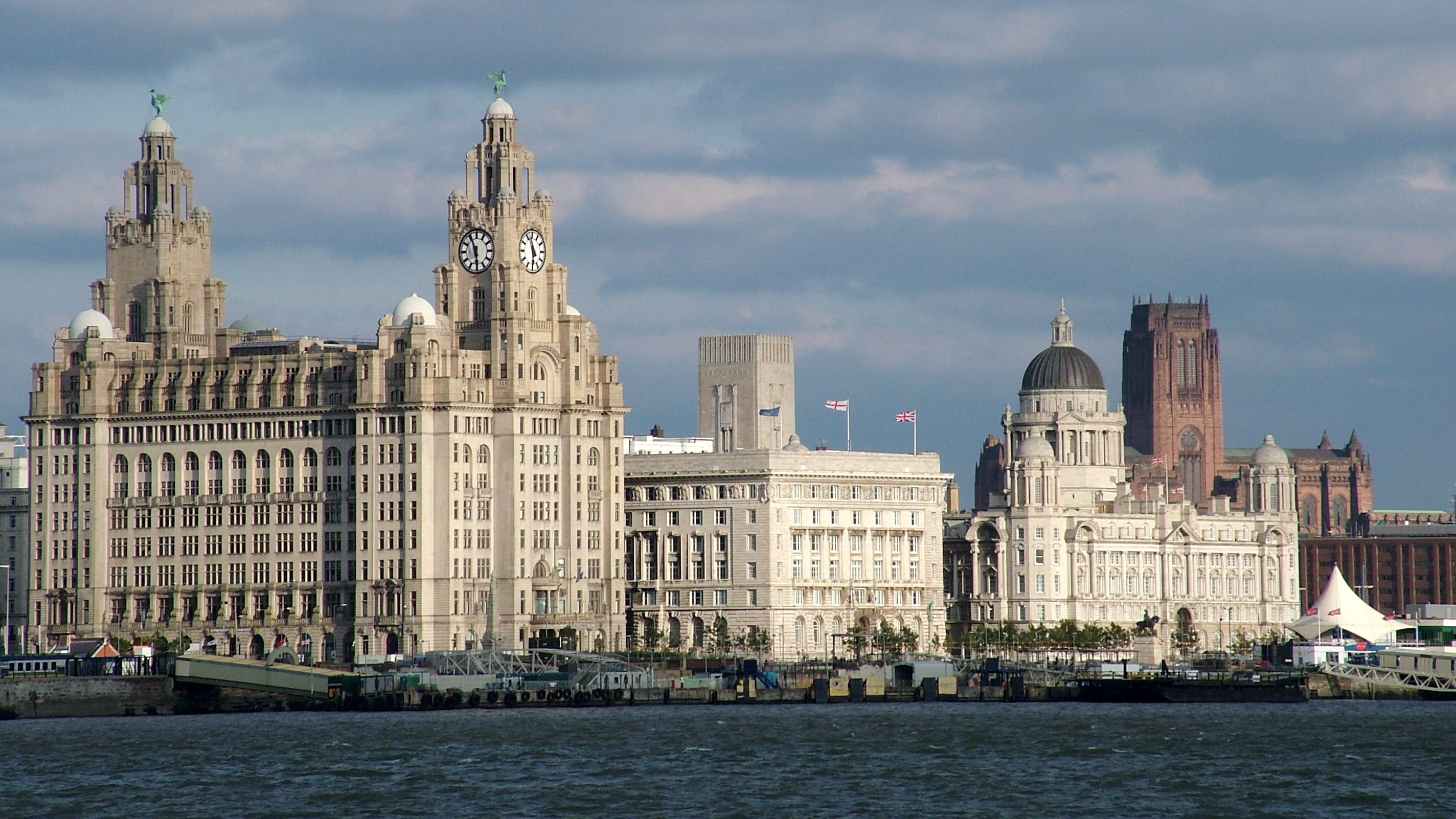 Liverpool (2008). Liverpool Pier Head, with the Royal Liver Building, Cunard Building and Port of Liverpool Building, as well as the Anglican cathedral in the background. Three Graces and Liverpool Cathedral. Pier Head. My Liverpool Home. Liverpool Pier Head, with the Royal Liver Building, Cunard Building and Port of Liverpool Building. The 'Three Graces' of Liverpool's Pier Head.